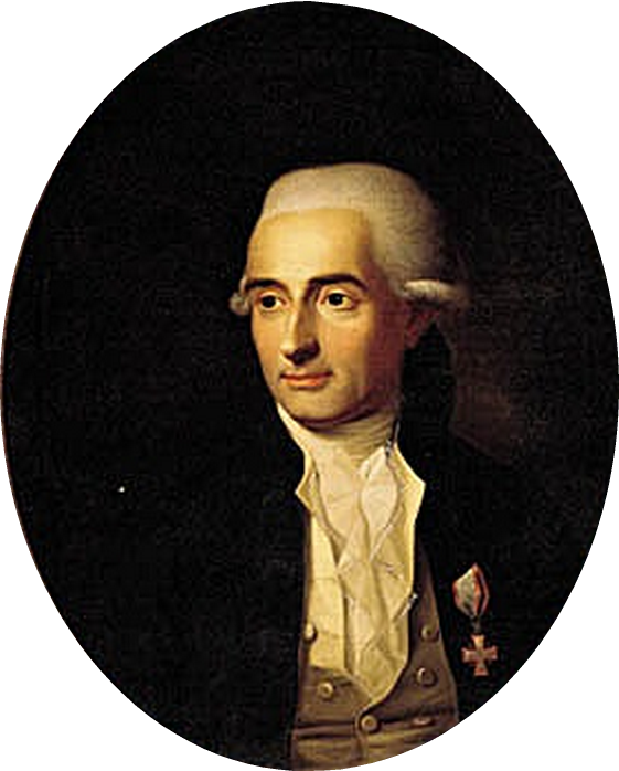 The merchant Pierre Peschier (1739-1812) was at times a very wealthy man in Copenhagen. In 1809 he became a knight of the order of the Dannebrog, and somebody added the order to Juel's painting.